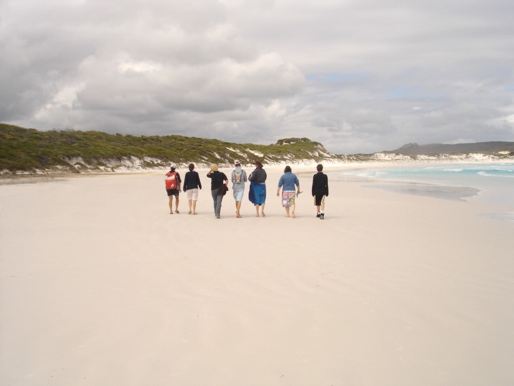 Teenagers walking east along Lucky Bay, one of the many beaches at Cape le Grand National Park. Lucky Bay is well known for its scenic white sands and clear water. Photo taken by User:DynaBlast.